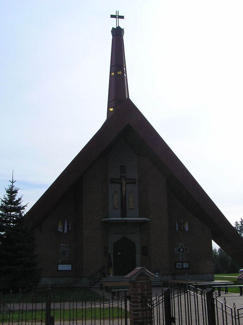 autor: Yarek shalom 20:42, 12 October 2006 (UTC)yarek shalom